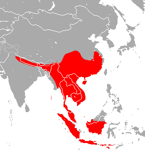 Rhinolophus affinis range